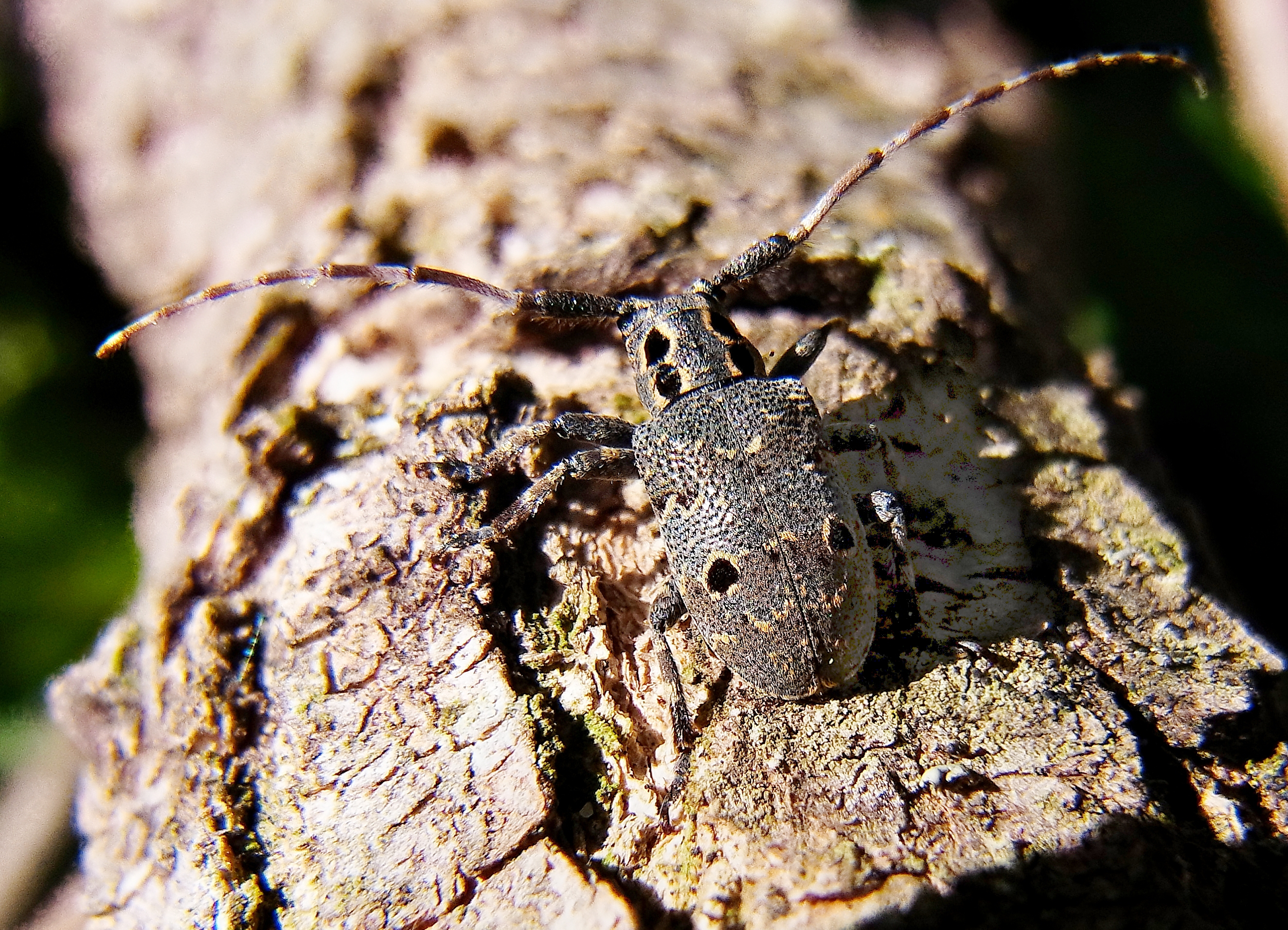 Mesosa curculionoides from West-Hungary near village Bélavár at 2012-04-28